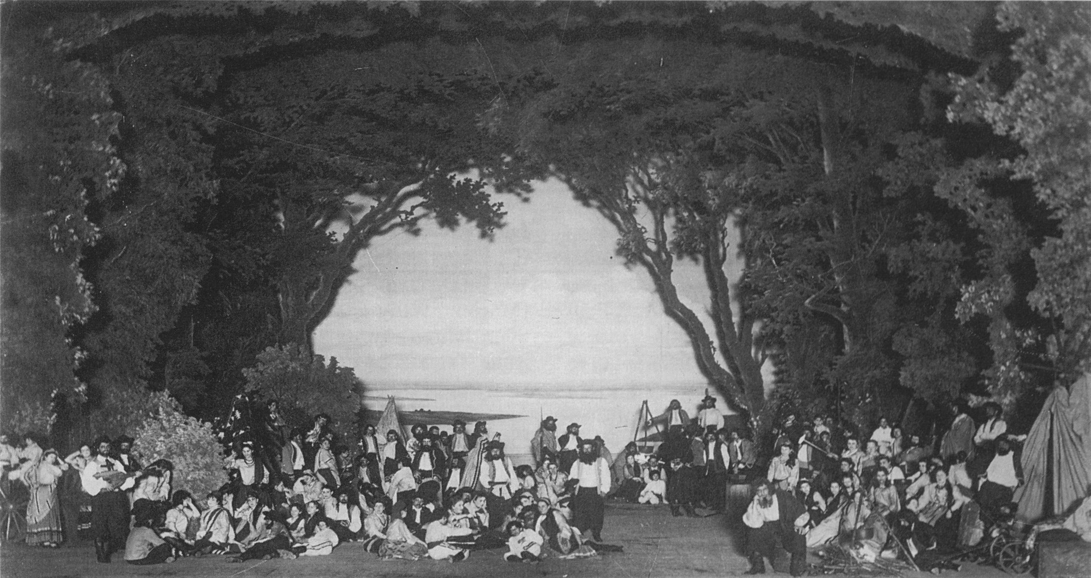 Sergei Rachmaninoff - Aleko - picture of the first performance, 1893